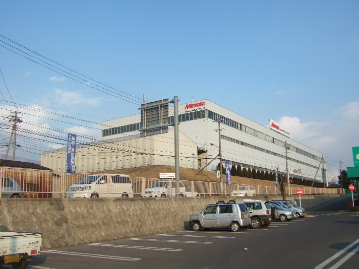 ミマキエンジニアリング 本社。長野県東御市 The head office of Mimaki Engineering Co., Ltd. in Tomi, Nagano, Japan